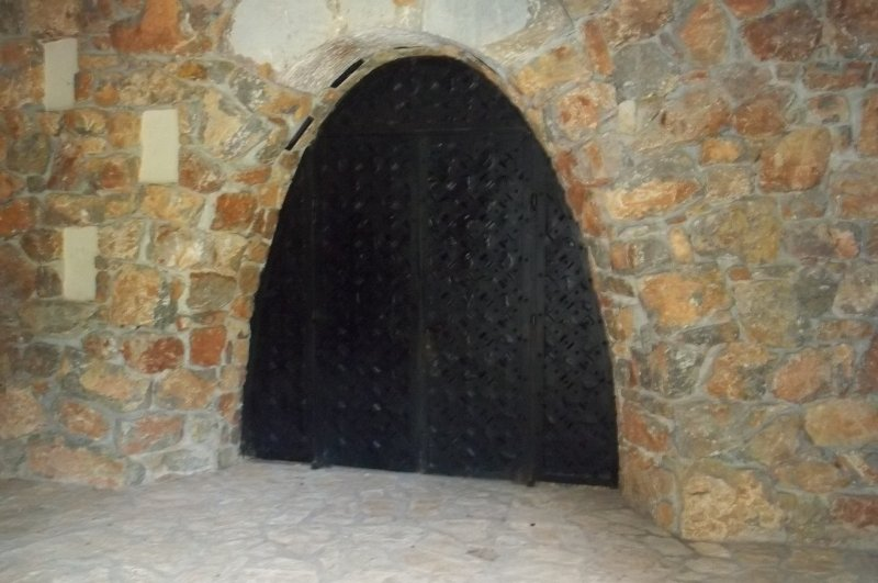 Entrance near Vörös-tó (Red Lake)